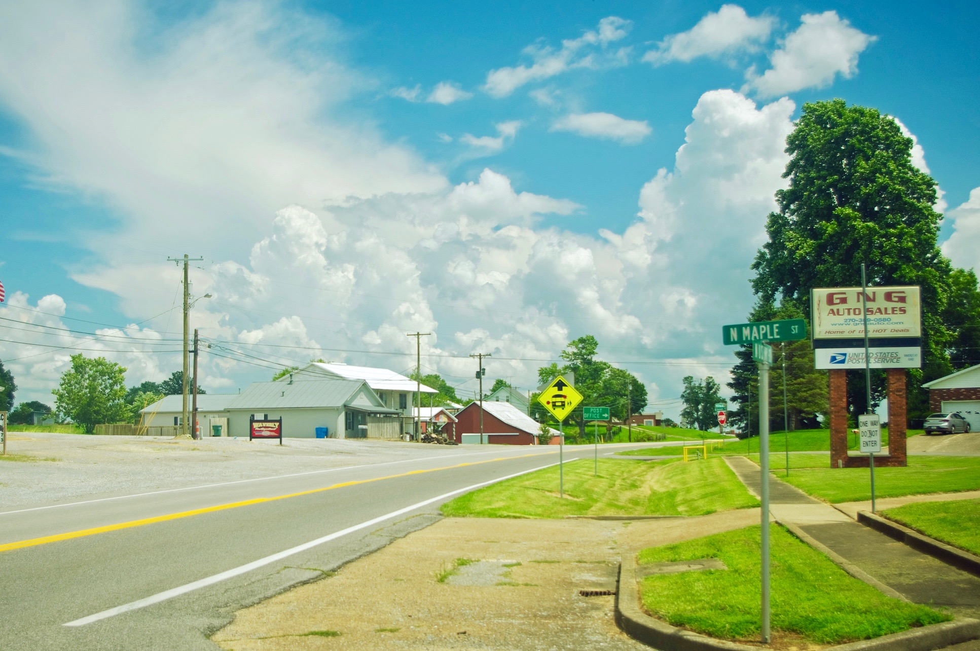 U.S. Route 60 in Waverly, Kentucky, United States.